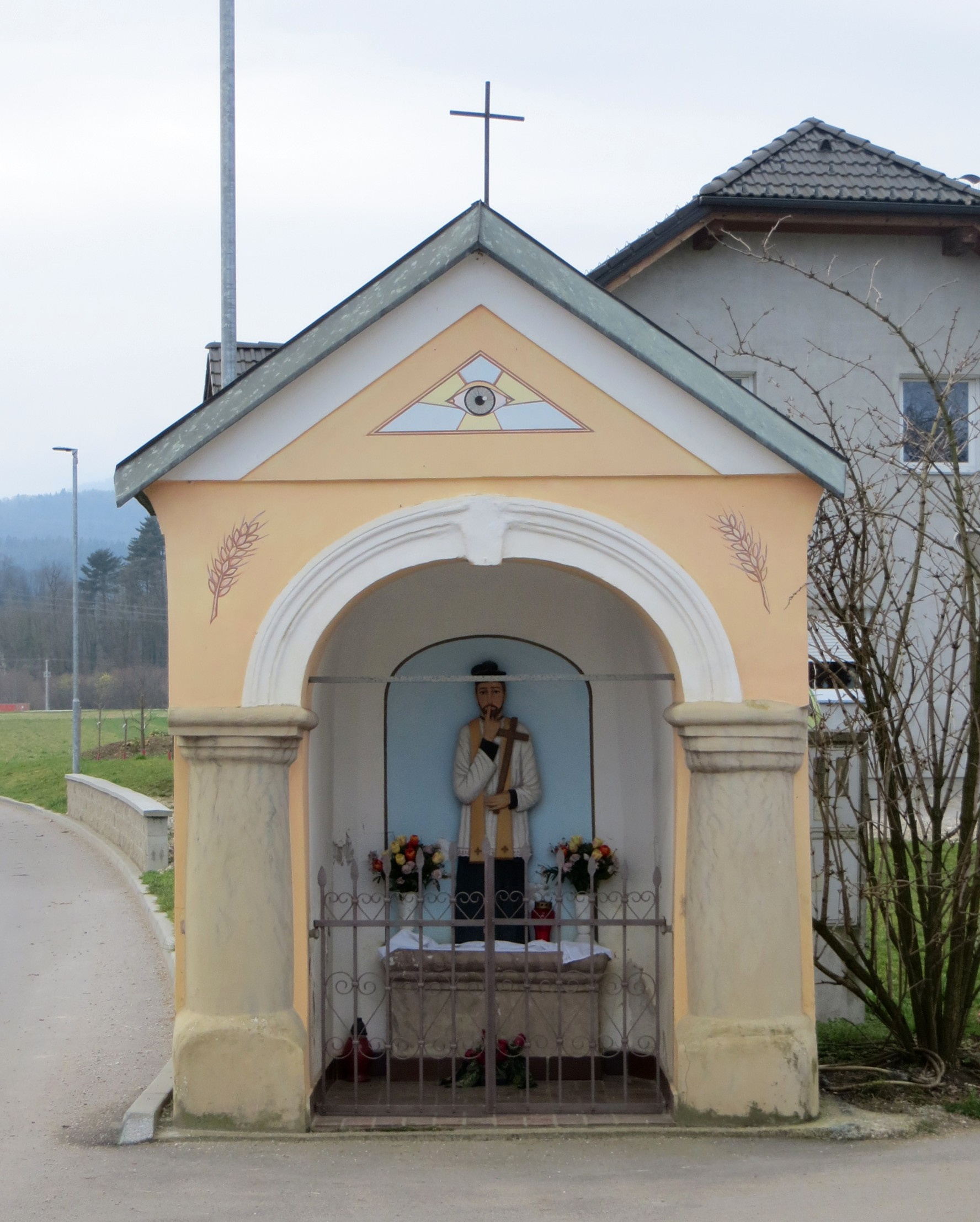 Wayside chapel shrine (19th century) in Iška Loka, Municipality of Ig, Slovenia